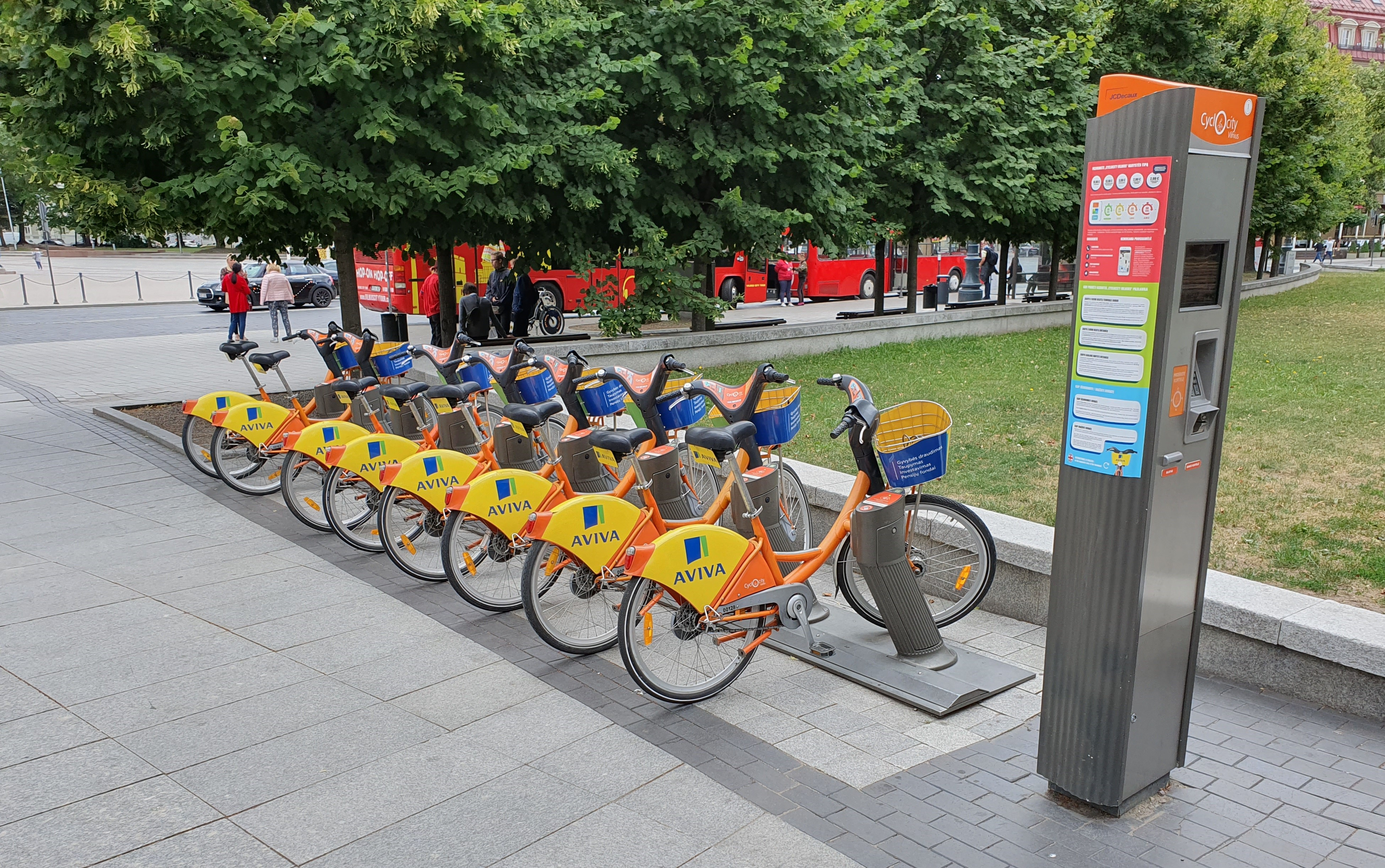 Orange bikes, available for anyone to rent in Vilnius, Lithuania.